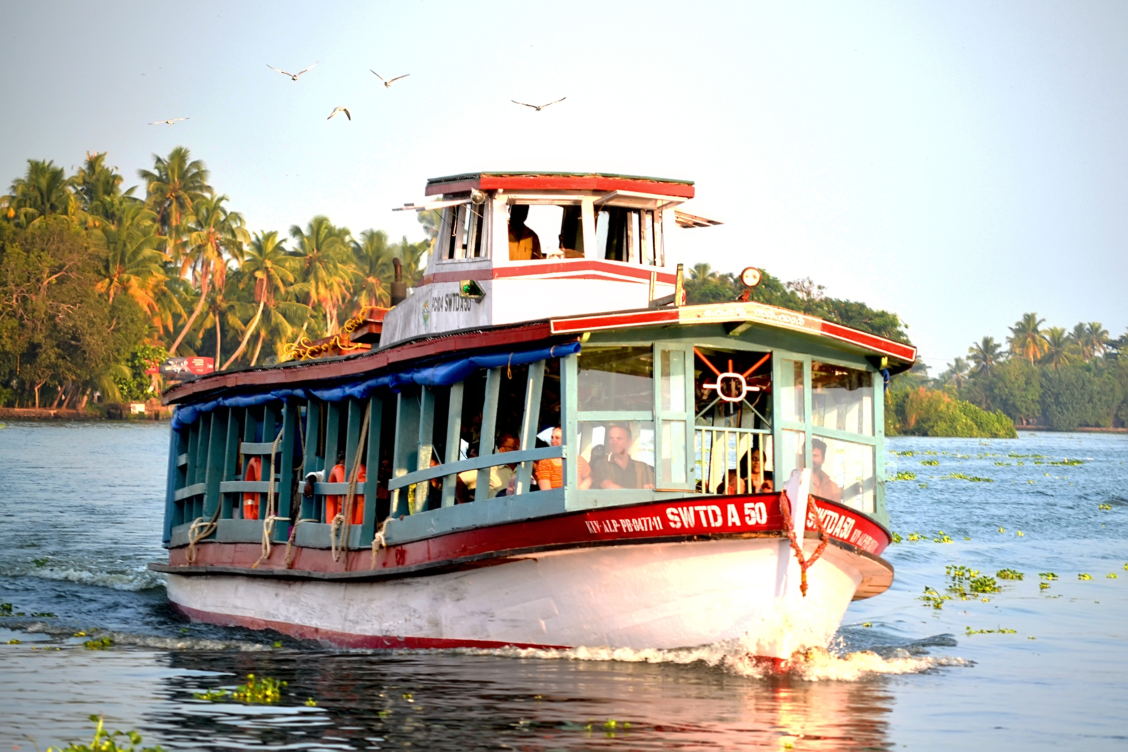 Kerala Water Transport